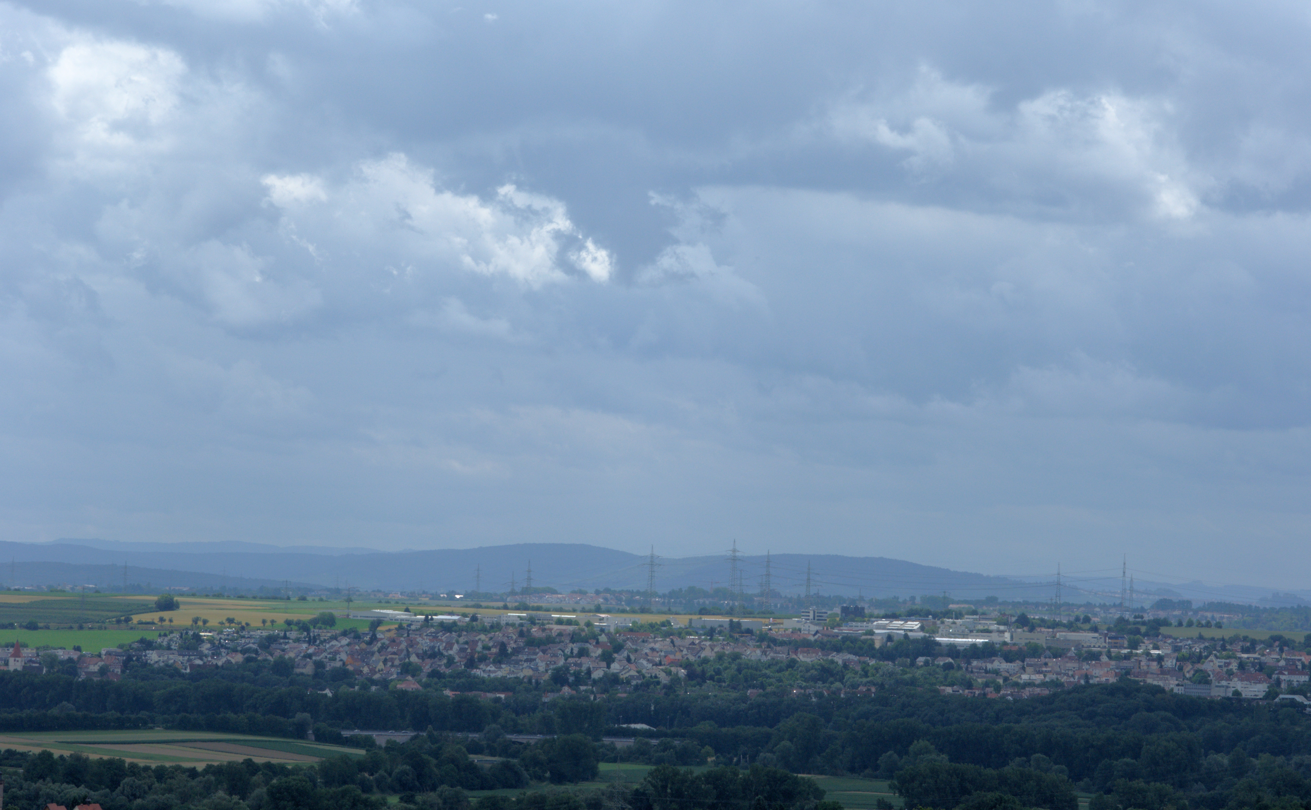 Panorama of Freiberg am Neckar, seen from the heights above Ingersheim